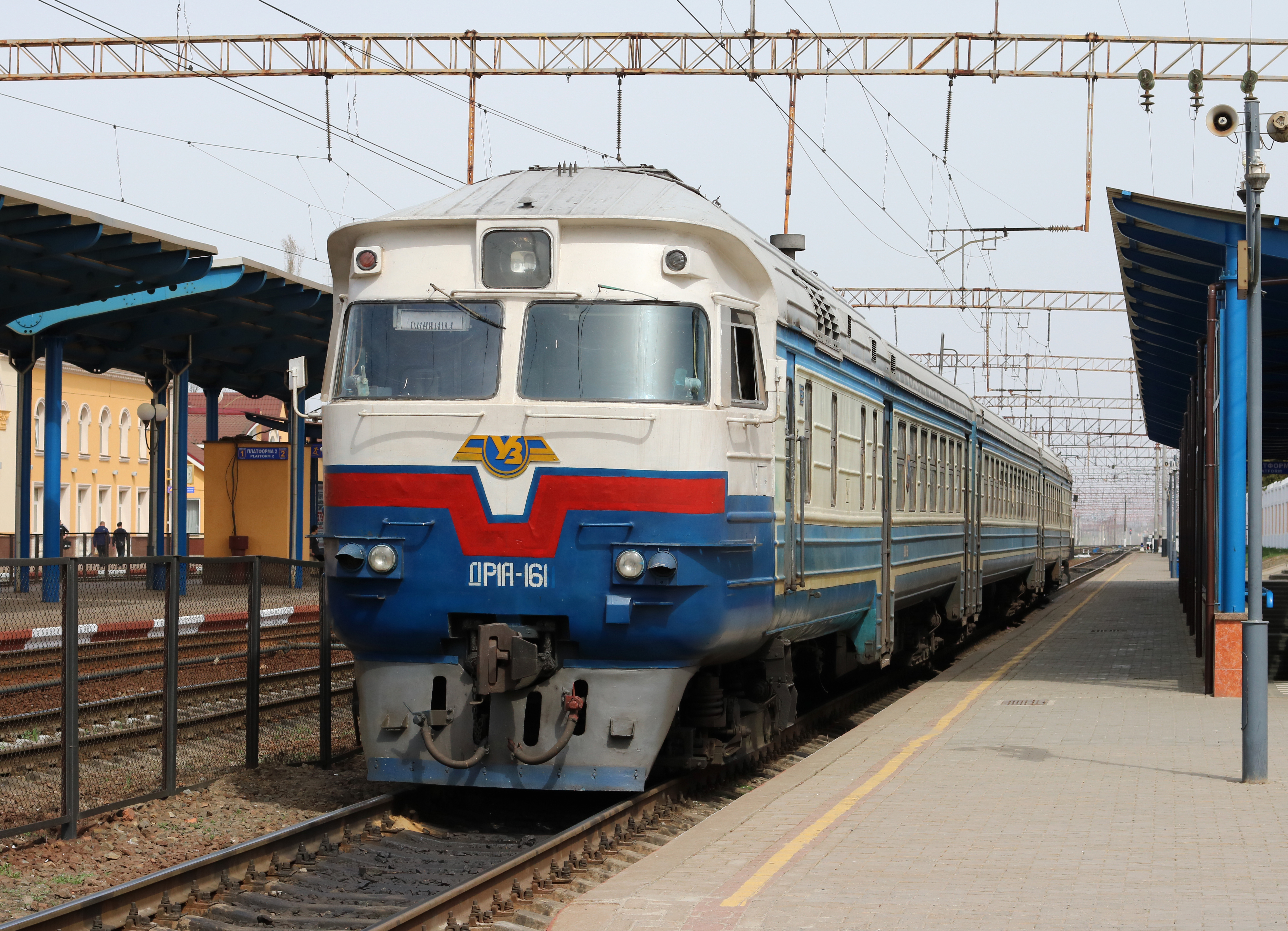 Diesel multiple units (trainset) DR1A-161 in Vinnytsia railway station.